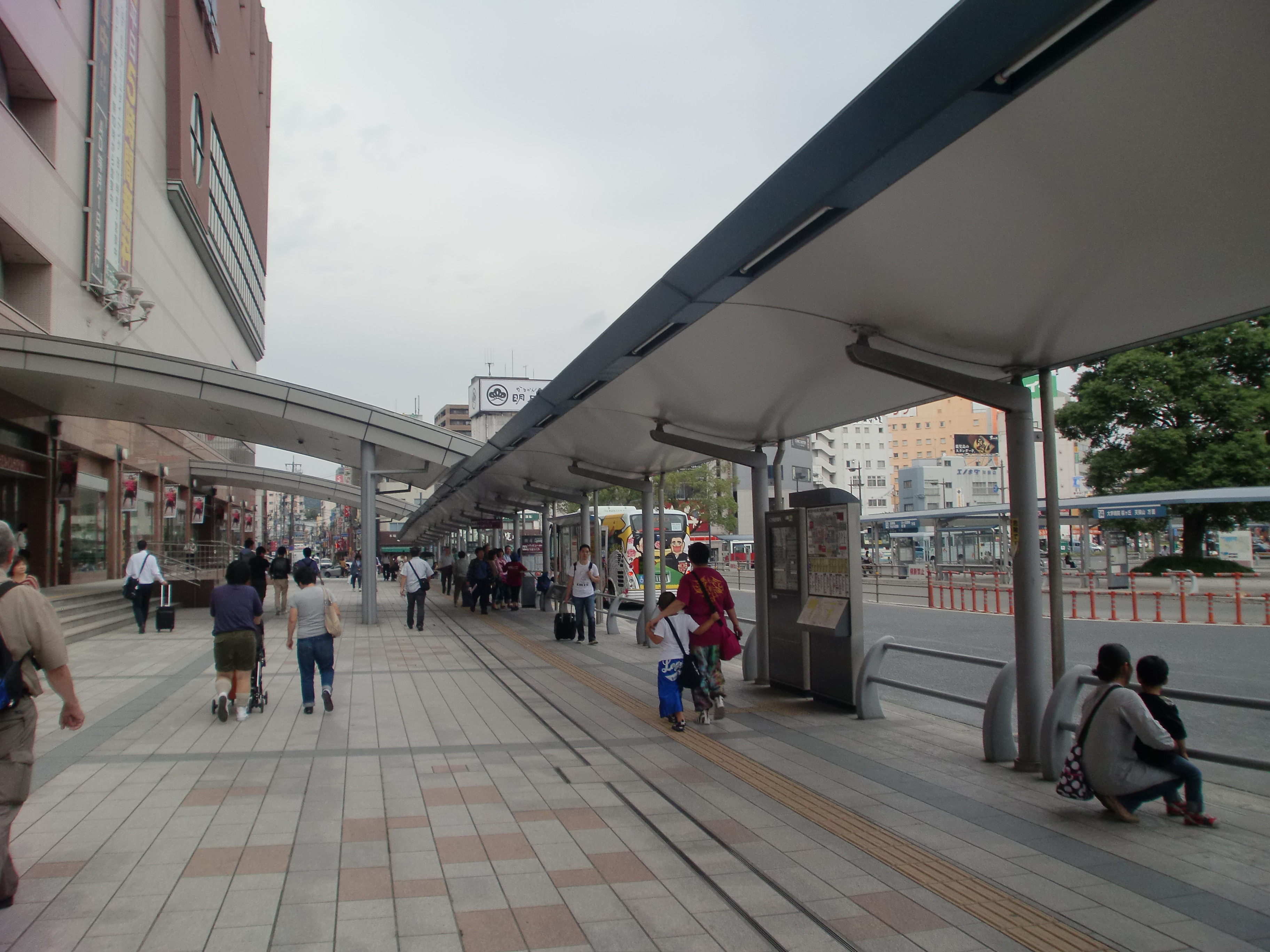 Bus stops in front of Kagoshima-Chuo Station